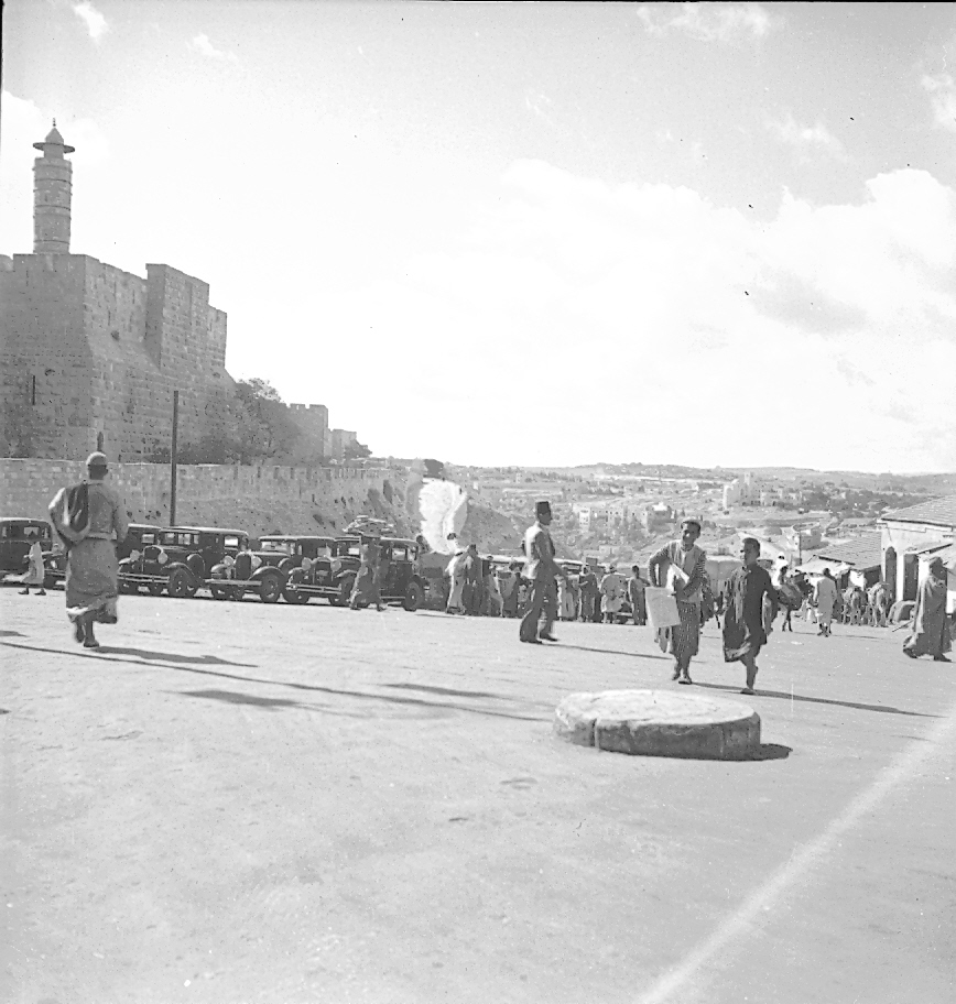 Jerusalem, Cities in Israel